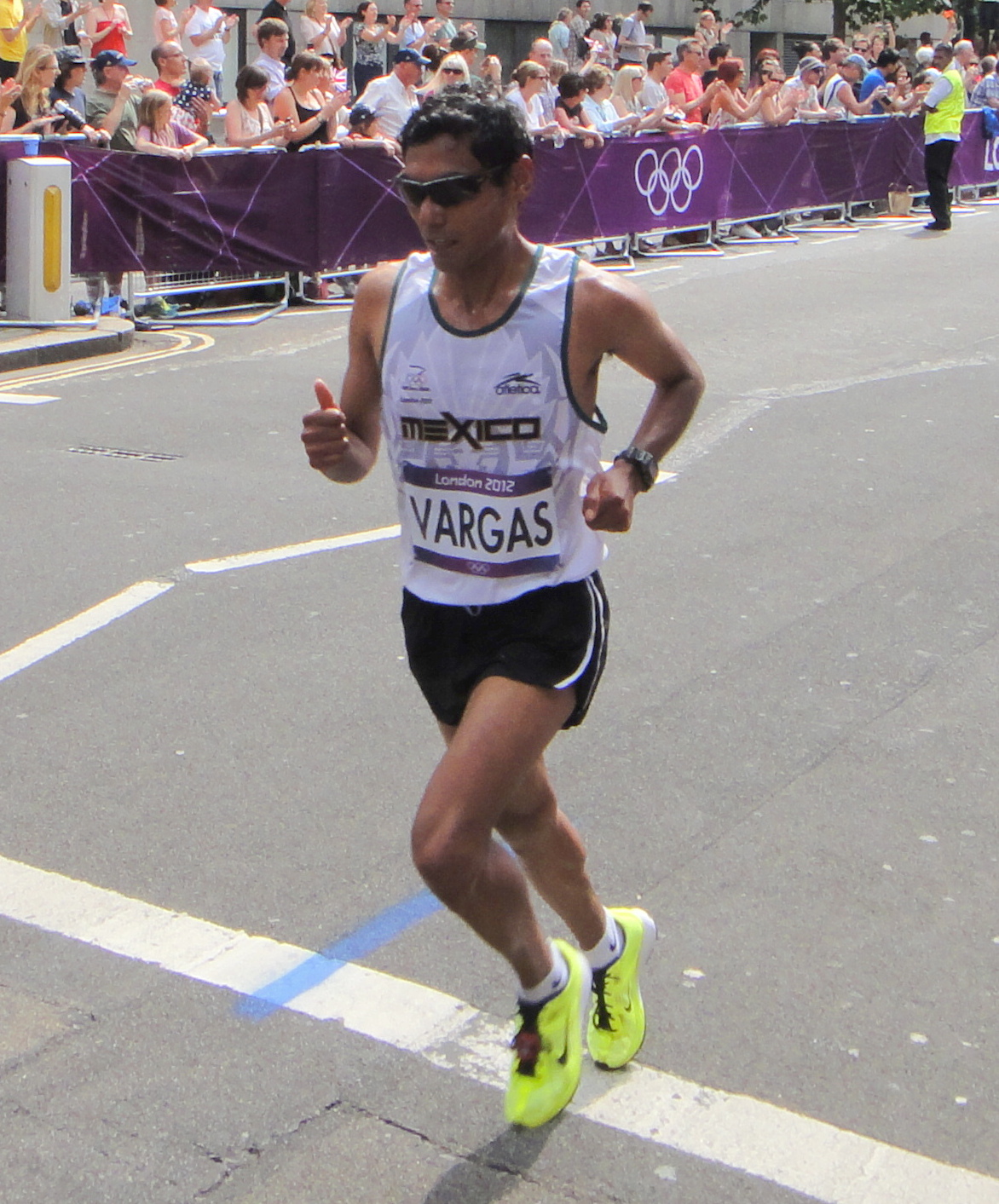 Daniel Vargas (Mexico) - London 2012 Men's Marathon